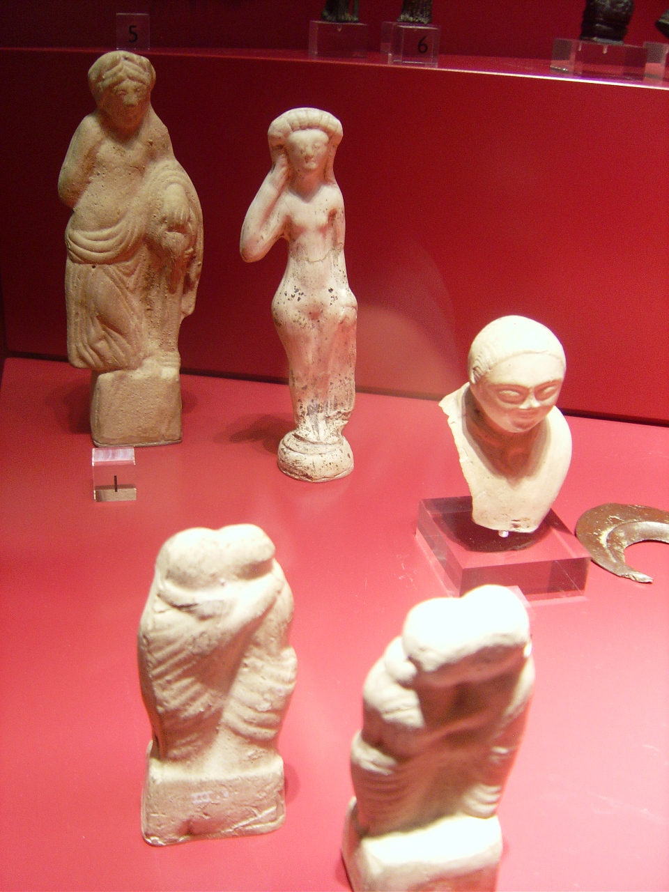 Fertility figurines Rijksmuseum van Oudheden Leiden